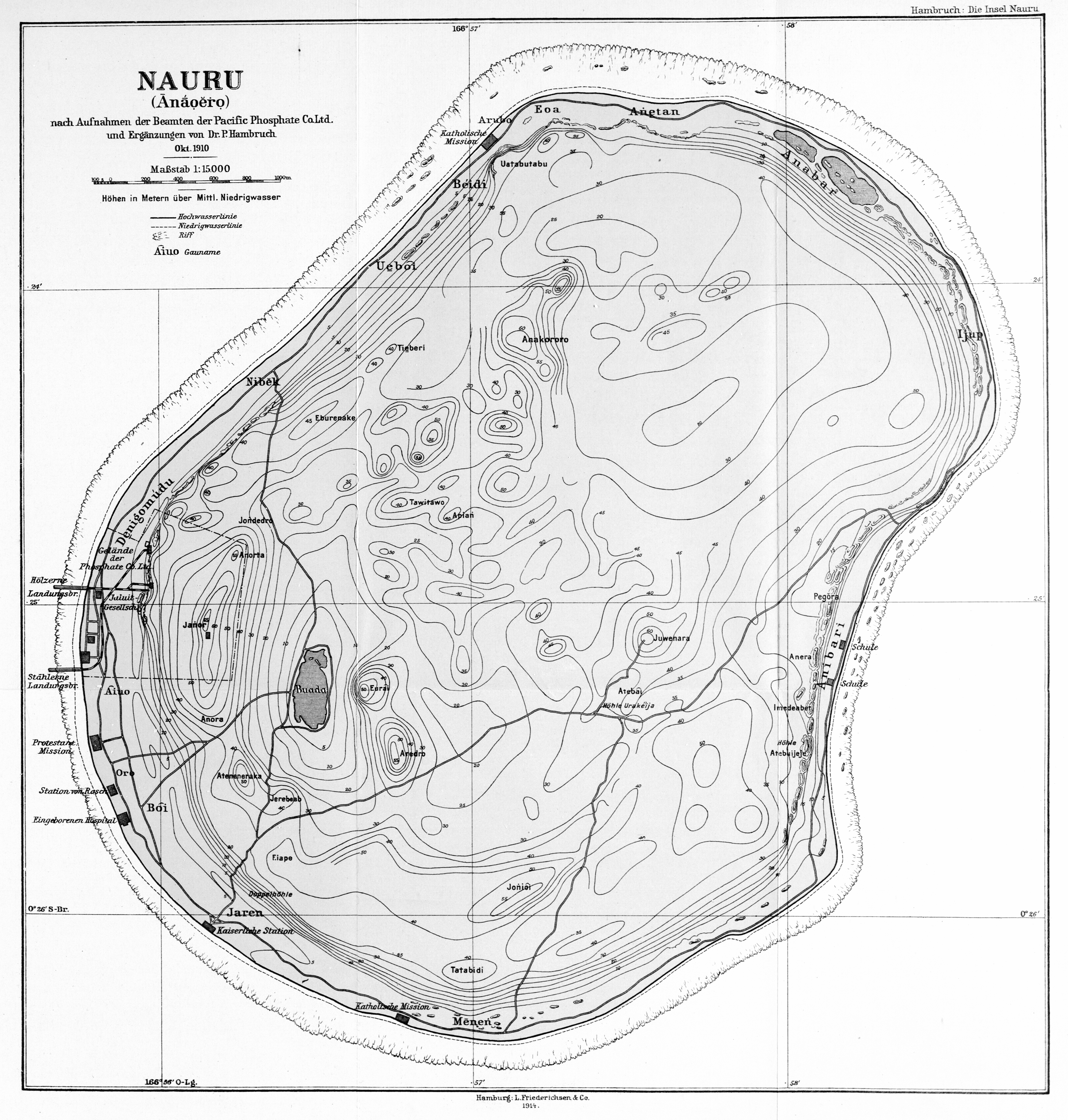 map of Nauru (Ānā́ọĕṙọ), central pacific, origin size 40 cm x 41 cm